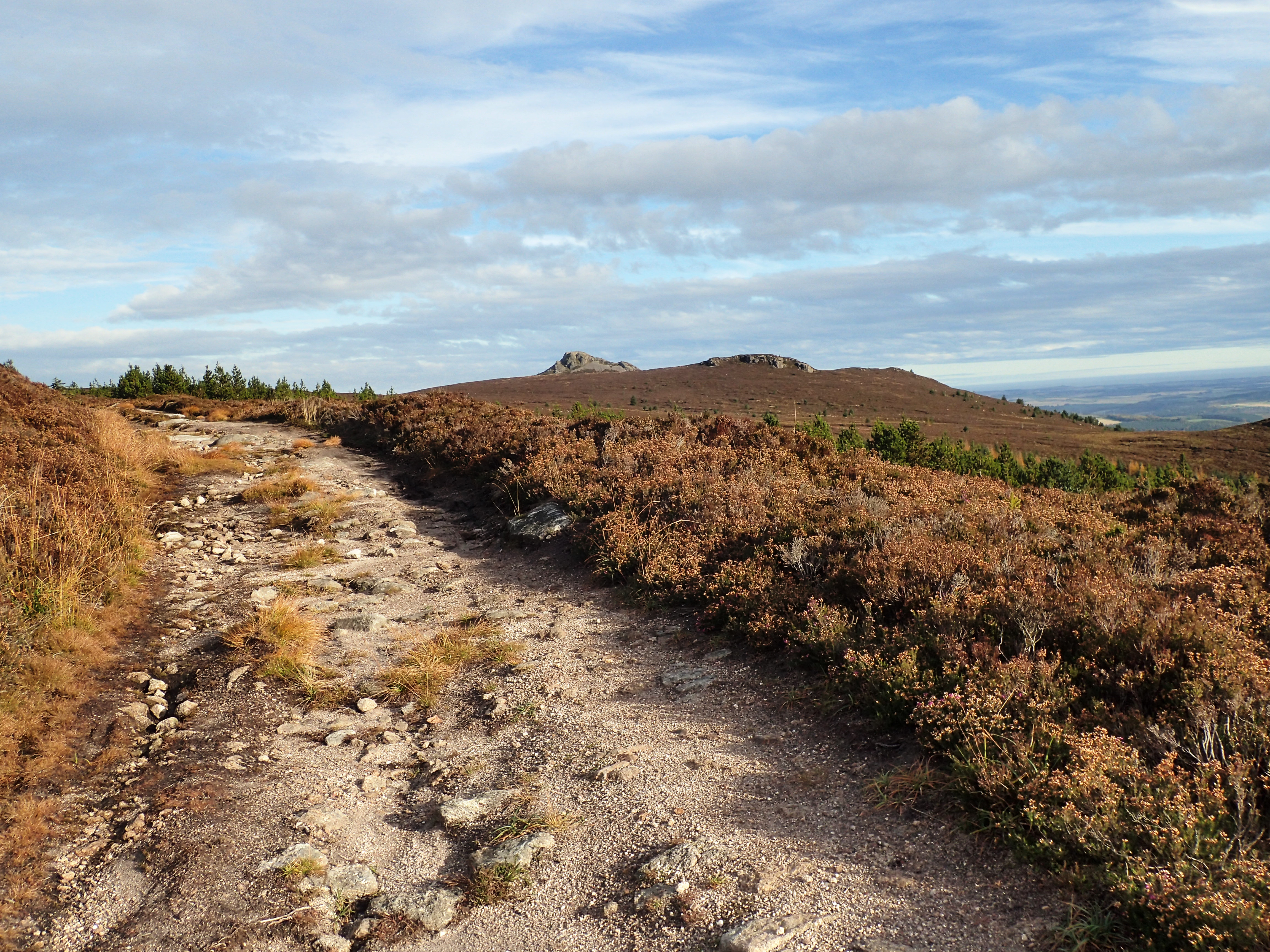 Gordon Way